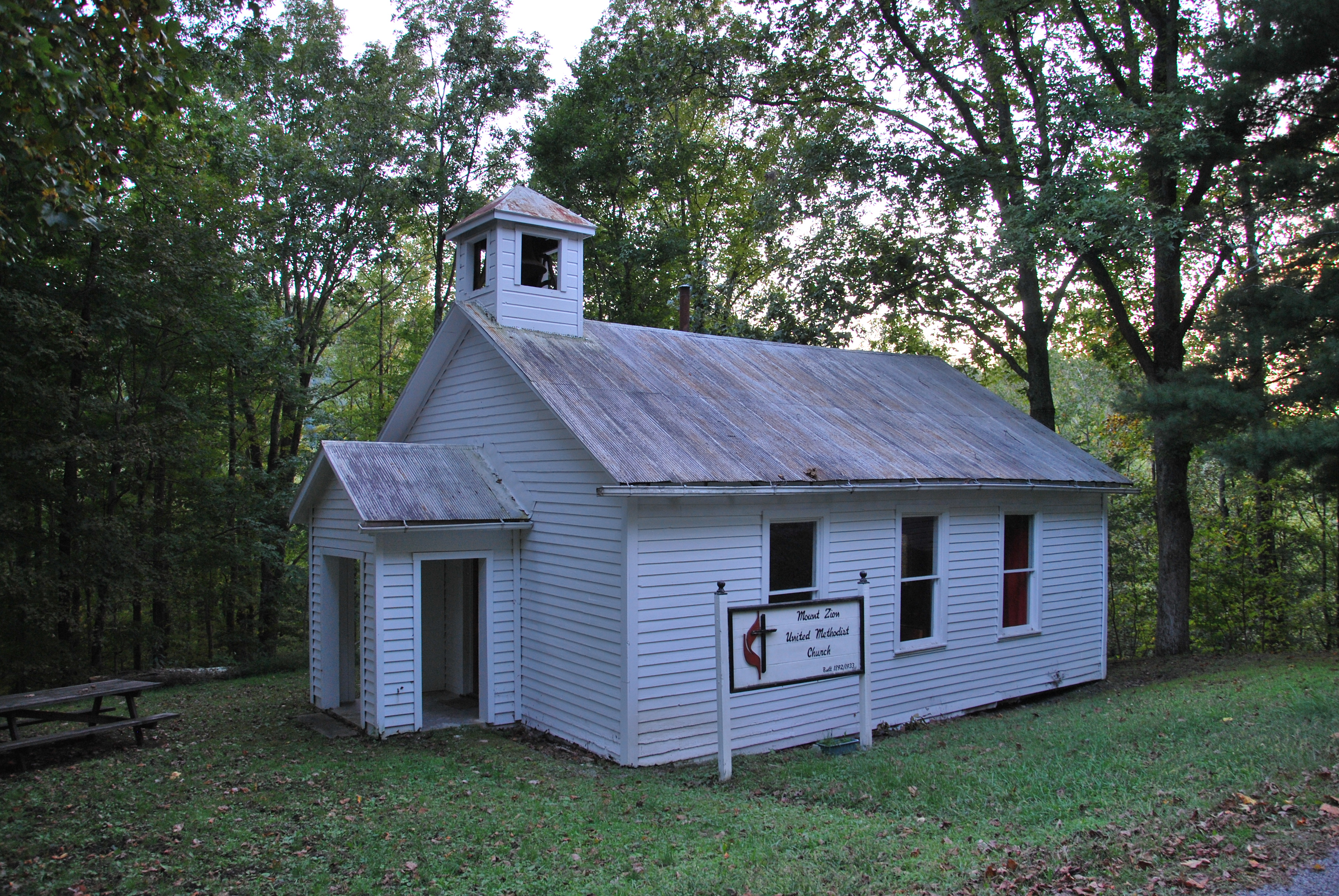 Mount Zion Church in Webster County, West Virginia.